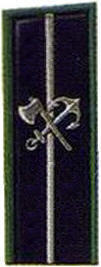 Insignia officials of the Ministry of Railways of the Russian Empire. Rank IX